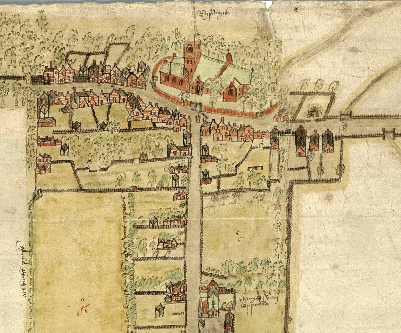 Rijswijk, Netherlands (probably, 16th or 17th century) (left to right: Herenstraat)